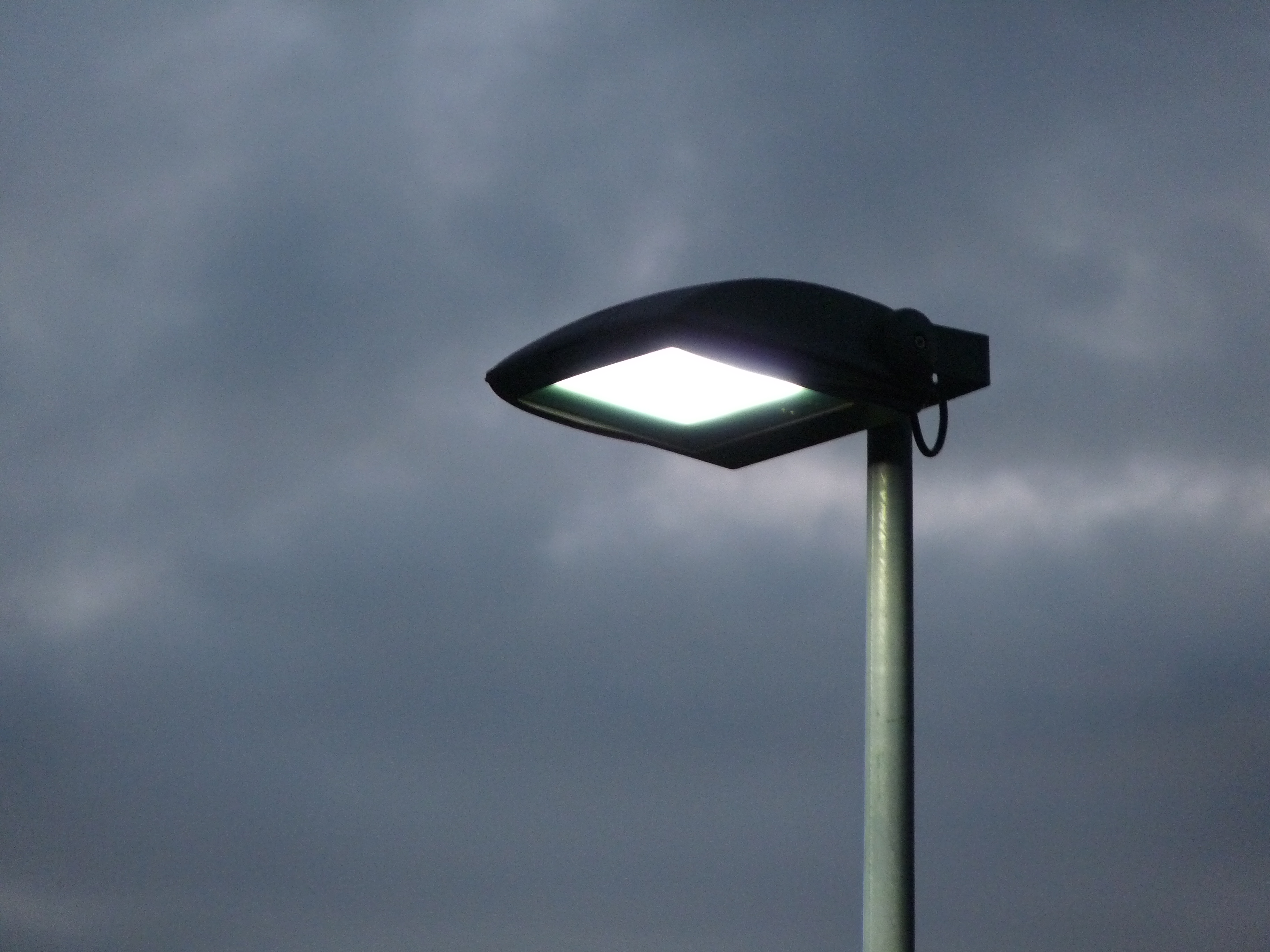 Metal-Halide streetlamp in Tallinn, Estonia